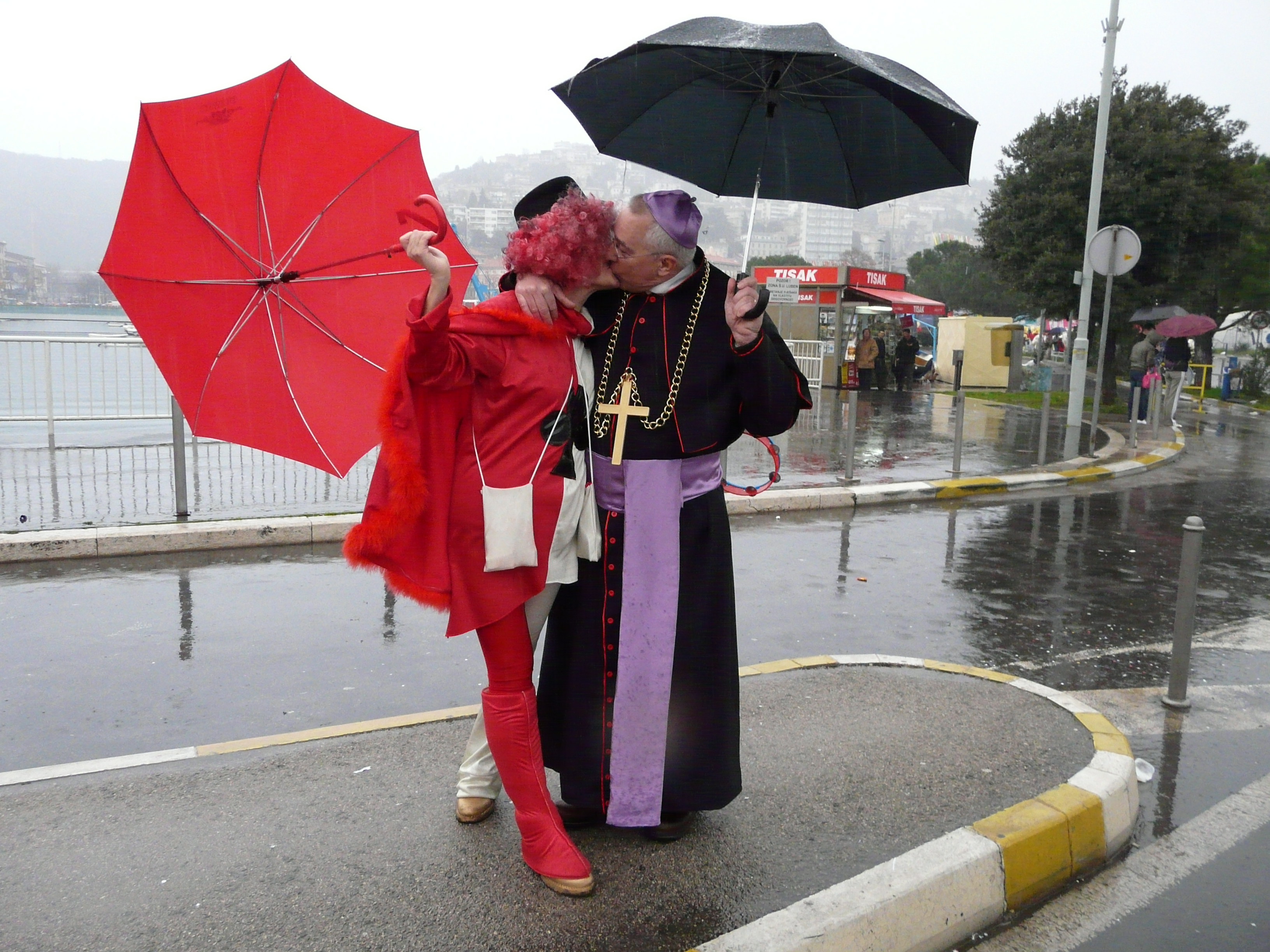 Rijeka Carnival, Feb. 2008. Duo the priest and the queen of spades.